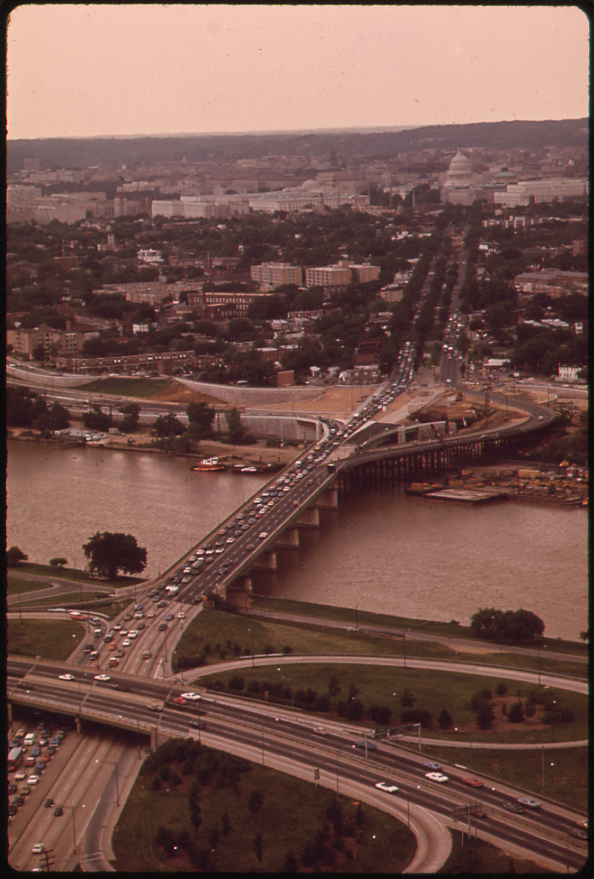 This is a photograph of the John Philip Sousa Bridge. The listed coordinates are incorrect; they should be 38°52′21″N 76°58′07″W / 38.872620°N 76.968480°W.